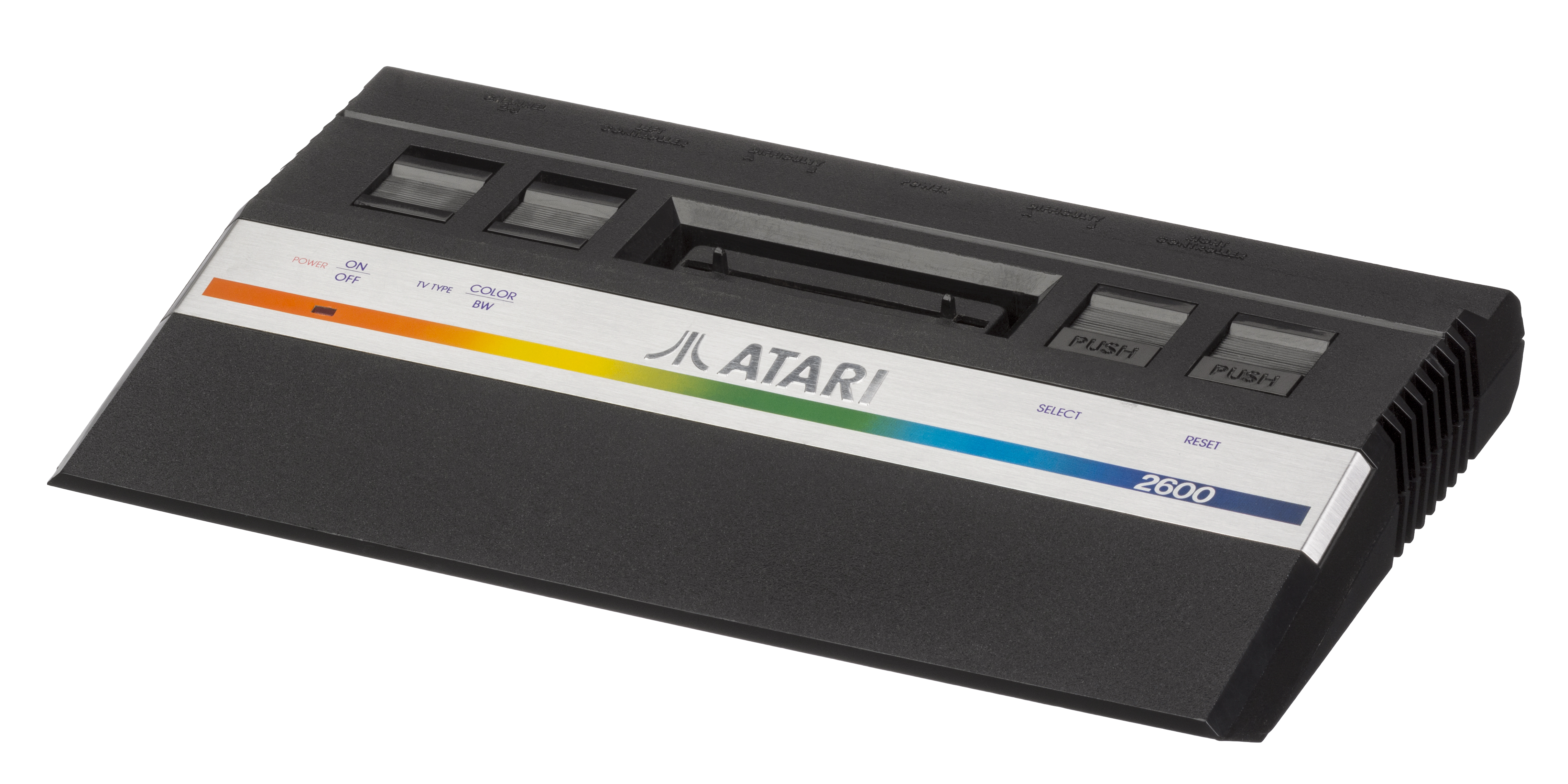 The Atari 2600 Jr, a cost-reduced revision of the regular Atari 2600 video game console. This version of the console was released during the Atari 7800 era and was sold through the '80s.